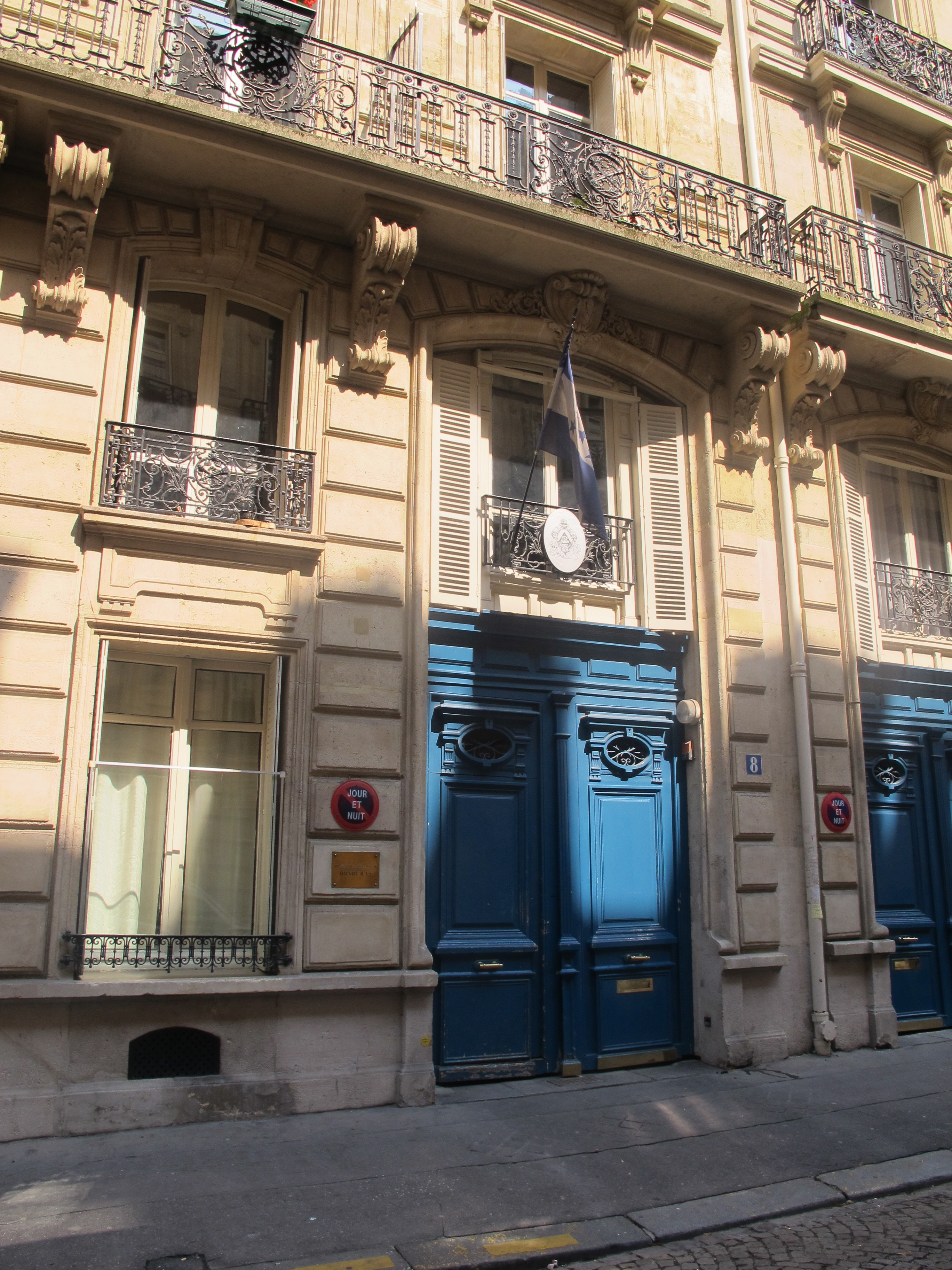 Embassy of Honduras in France, 16th arrondissement of Paris